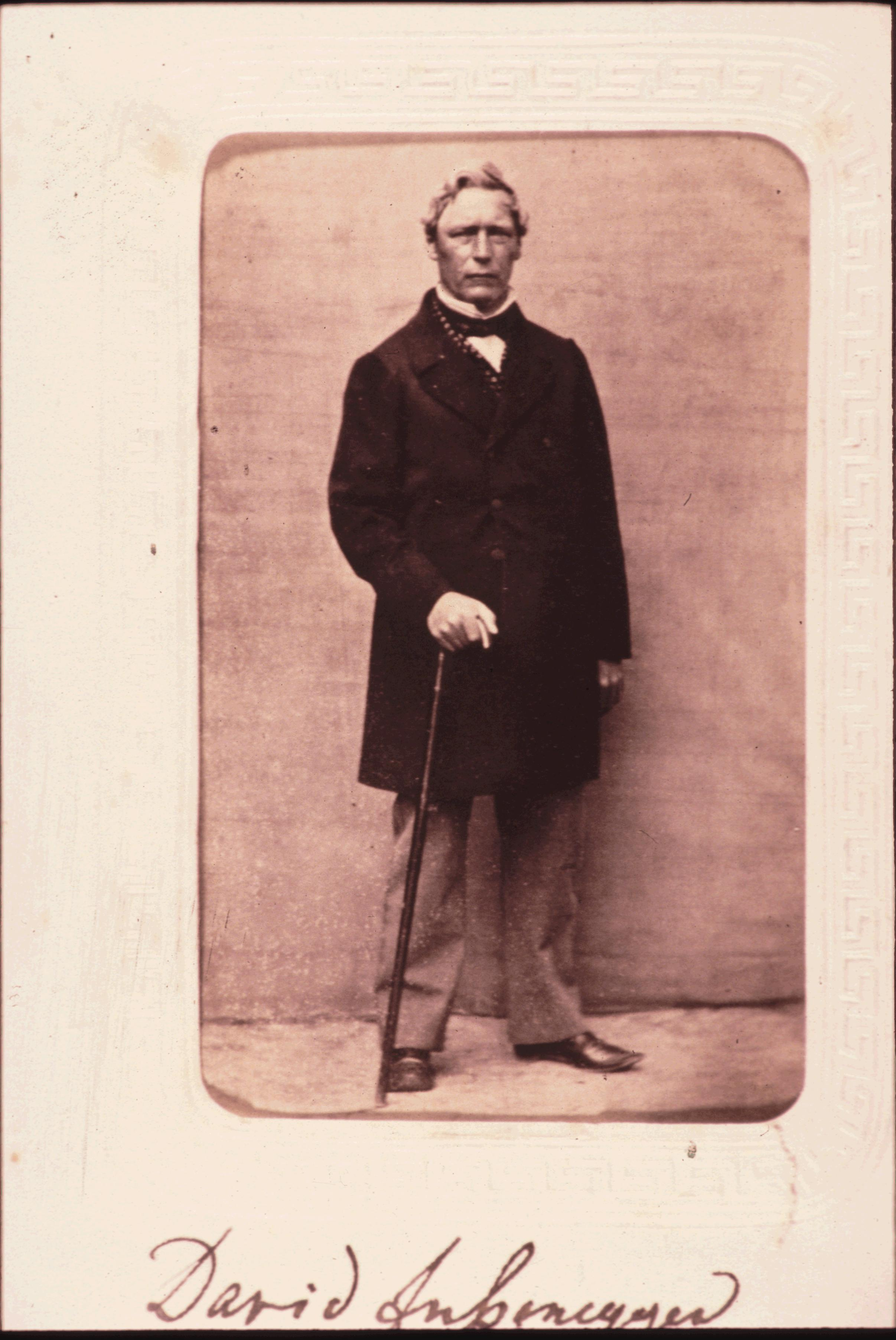 David Fussenegger, Member of the Landtag of Vorarlberg (1861–1864) and mayor of Dornbirn (1854–1857).